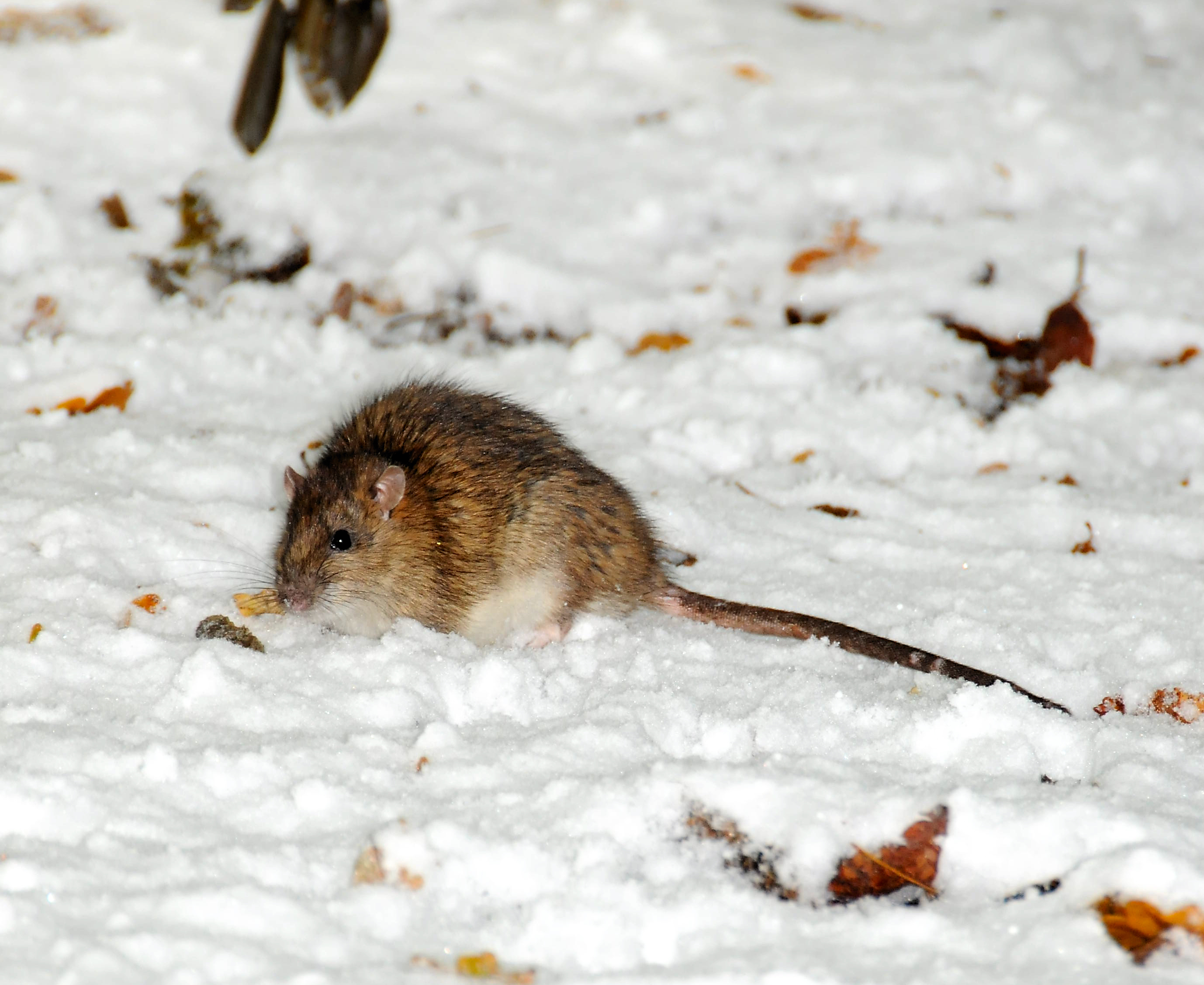 A brown rat eating food put out for garden birds in snow in England.